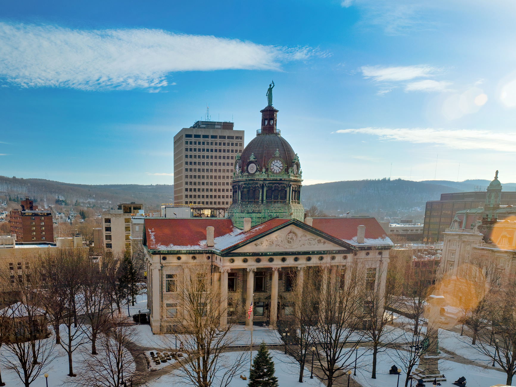 The Broome County Courthouse in Binghamton, New York. Located within the Court Street Historic District.